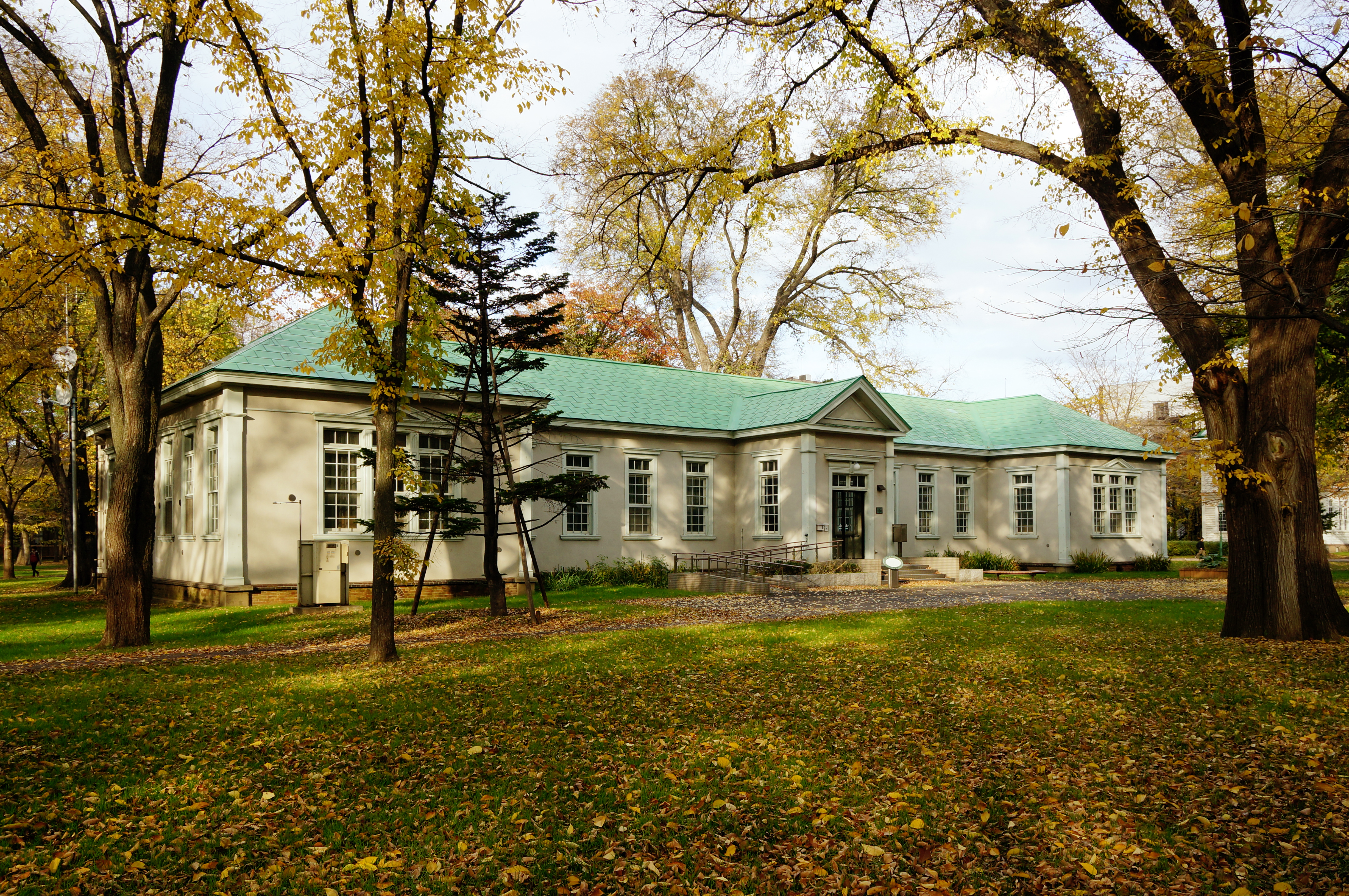 At Hokkaido University in Sapporo, Hokkaido prefecture, Japan. Department of Entomology and Sericulture - Former Sapporo Agricultural School